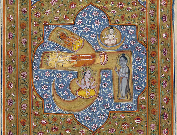 Brahma, Vishnu, and Shiva within an OM, in a Mahabharata manuscript from 1795 (downloaded Mar. 2006) "Special Collections [at the Univ. of Edinbufgh] has a beautiful example of the Mahabharata on a continuous strip of silk approximately 230 feet long. Illuminated with elaborate illustrations in late Mughal or Kangra style with lavish use of gold, detailed floral borders and infills between the frames of the miniatures. Dated sam 1852(=1795 A.D.) in several of the internal colophons. The manuscript is mounted on rollers in a glass topped box. Preceded by a series of large miniatures, with others between the various parvans, as well as a series of small quatrefoil-shaped ones interspersed through the text. All the miniatures have gold backgrounds with red and white flowers, green leaves, blue diamond shapes and gold flowers in orange cartouches."